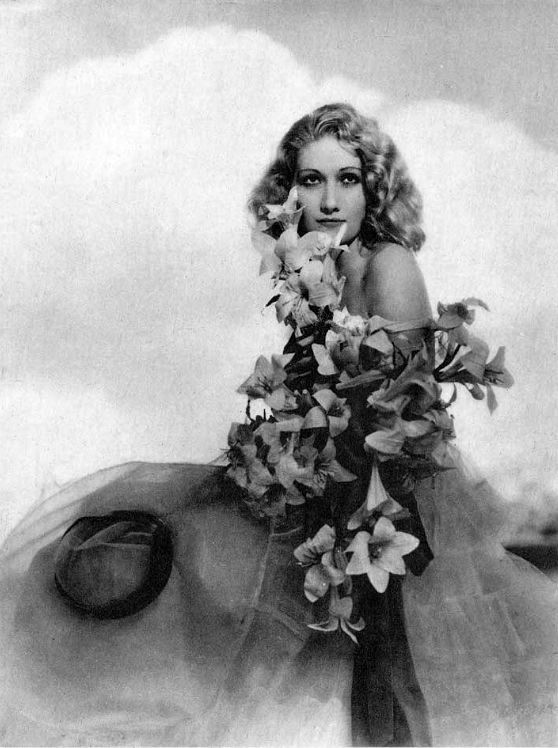 Publicity photo of Edwina Booth for Argentinean Magazine. (Printed in USA)